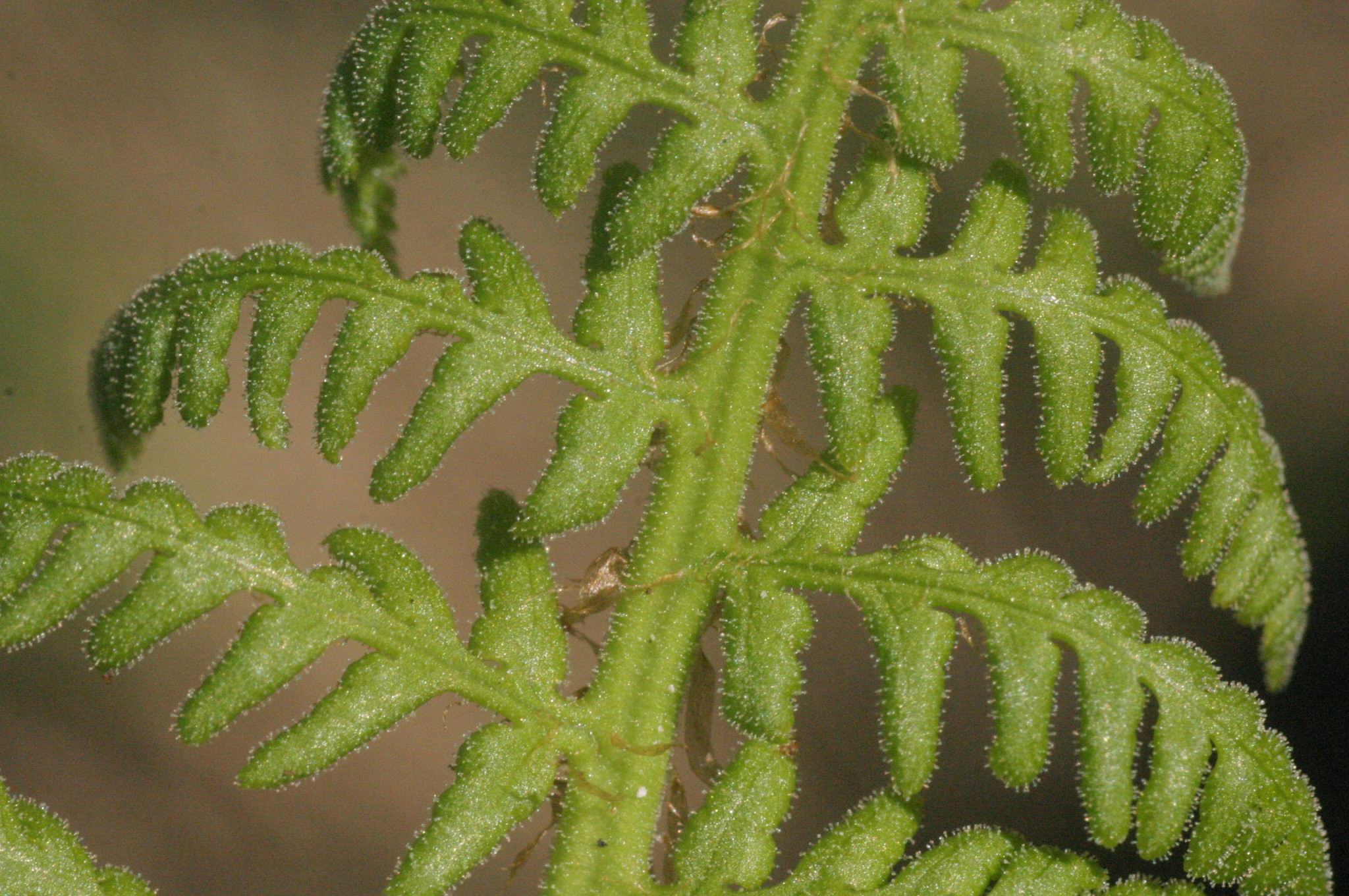 Dryopteris villarii